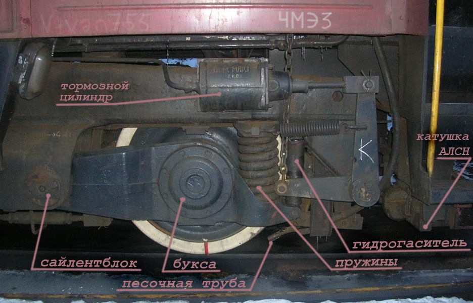 One axe of diesel shunter ChME3, Russia, Ural, Sverdlovsk region Тормозной цилиндр — brake cylinder; сайлентблок — rubber knuckle; песочная труба — sander; пружины — springs; гидрогаситель — suspension; катушка АЛСН — rail induction link receiver